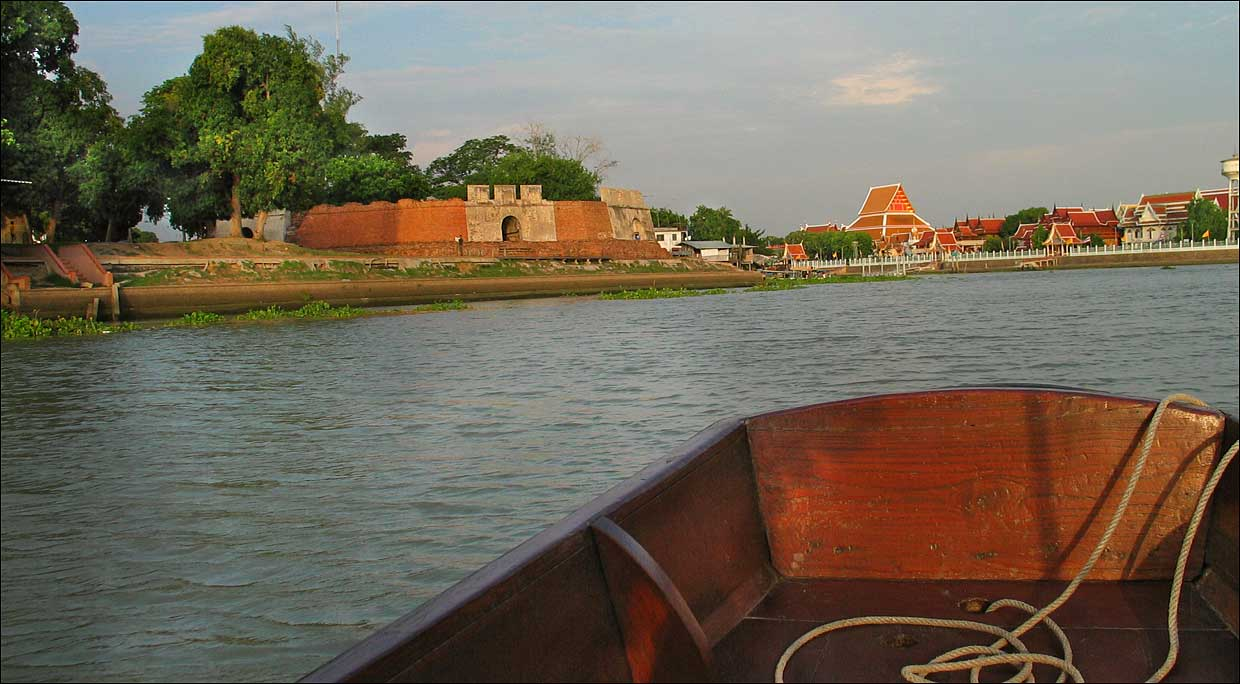 Phet Fortress (left), Wat Phanan Choeng (background), Ayutthaya, Thailand.